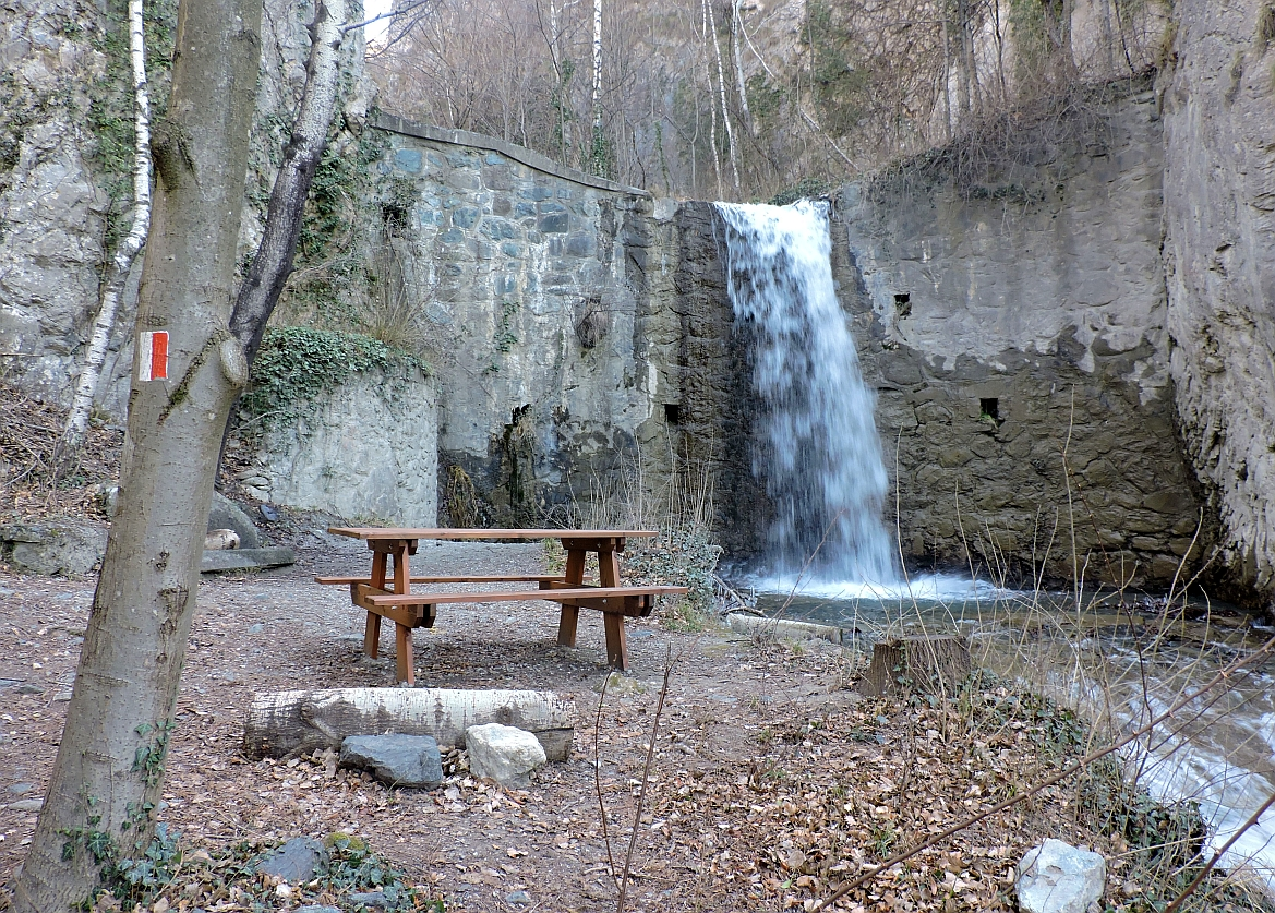 Torrente Prebec: waterfall near Chianocco (Piedmont, Italy)